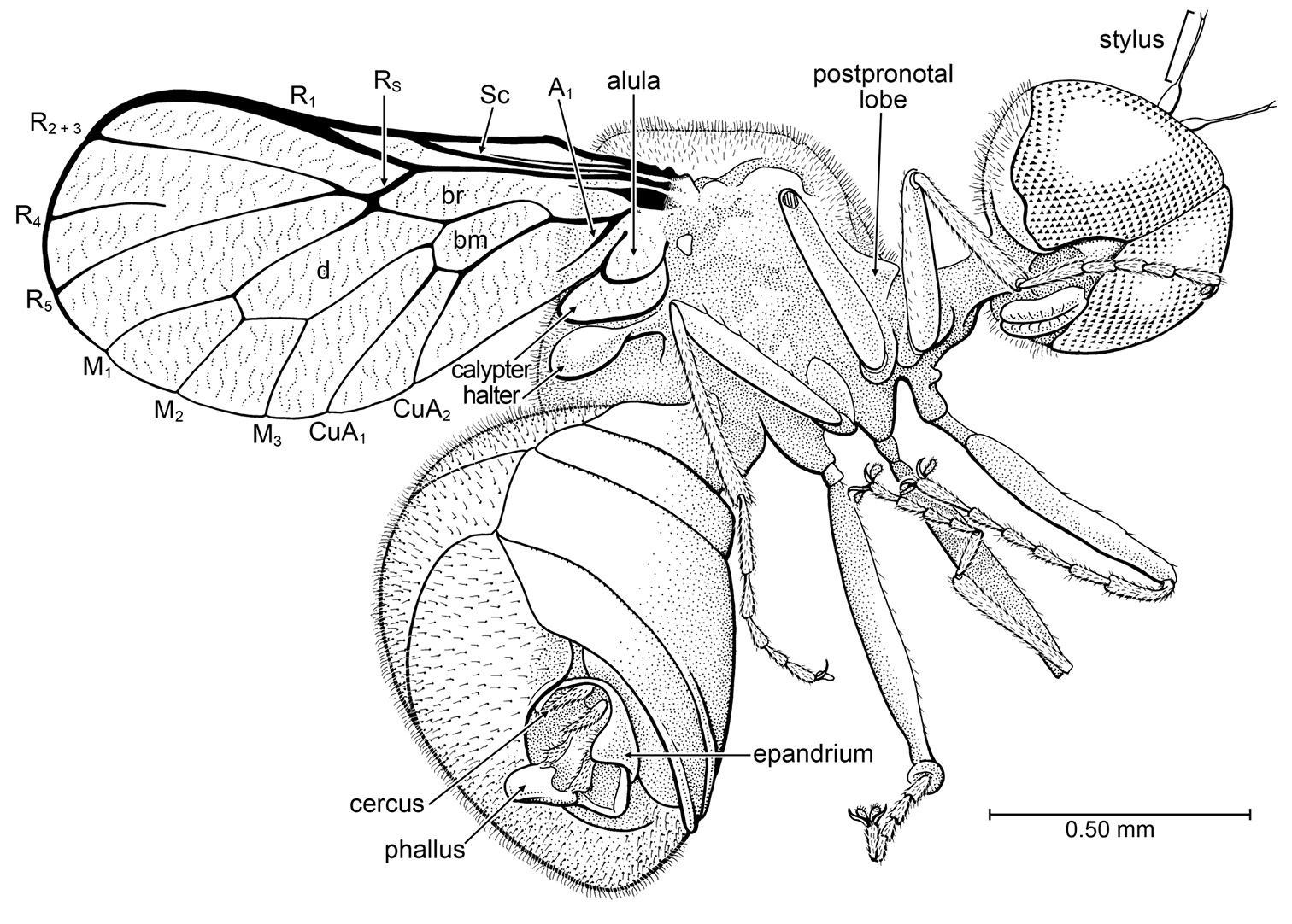 Burmacyrtus rusmithi Grimaldi & Hauser, (Acroceridae) in Burmese amber. Holotype AMNH Bu-RS1.